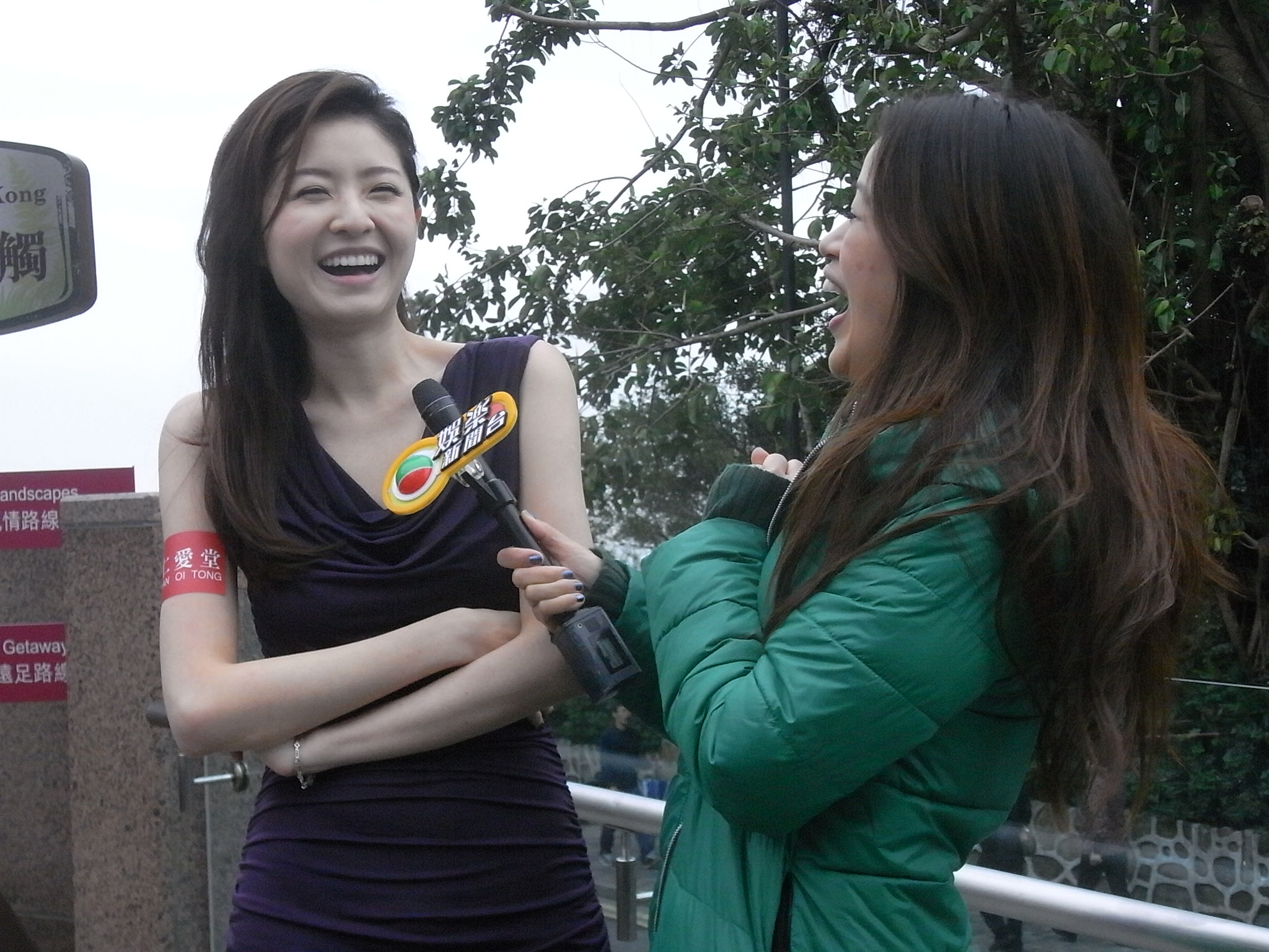 Suki Chui TVB Entertainment News, Peak Road Garden, Hong Kong